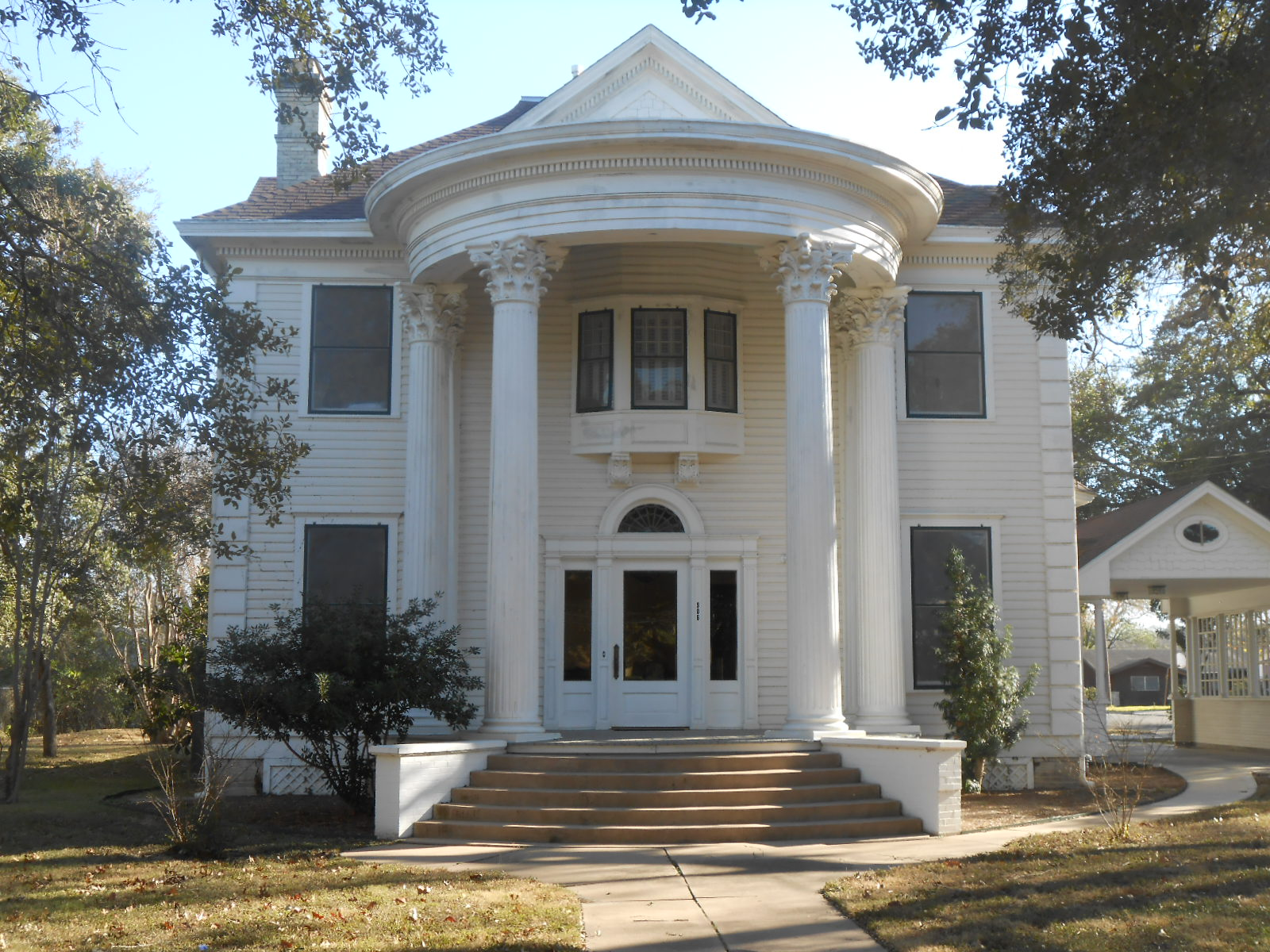 The C.H. Hoskins House at 906 St. Louis St., Gonzales, Texas was completed in 1911. It was designed by noted architect Atlee B. Ayres.